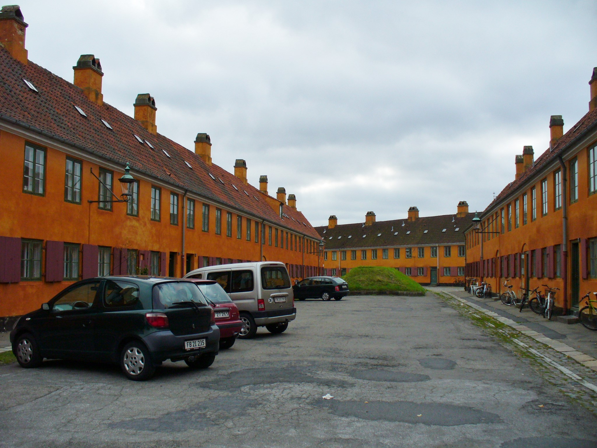 The street Vildandegade in the area Nyboder in Copenhagen.